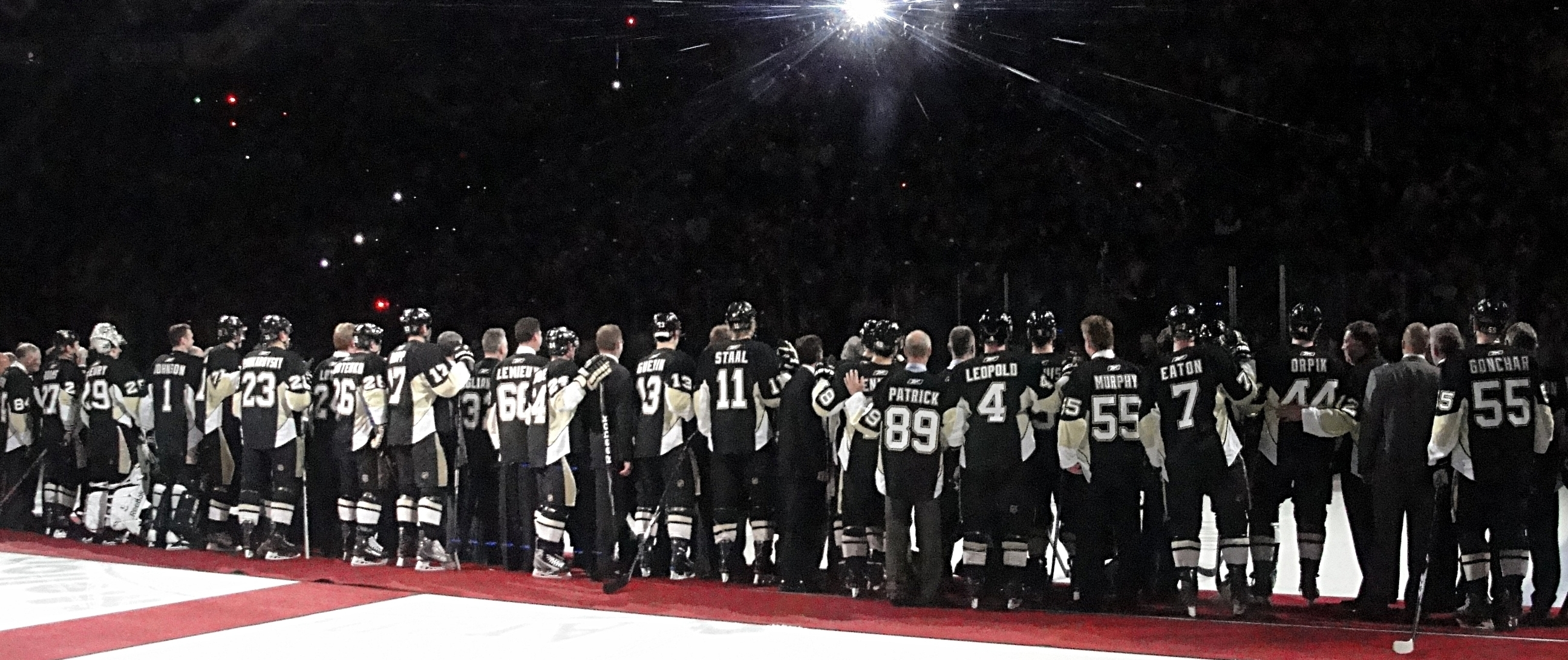 Pittsburgh Penguins past and present were honored during a pregame ceremony before the final regular season game ever played at Civic Arena in Pittsburgh (formerly Mellon Arena), April 8, 2010.